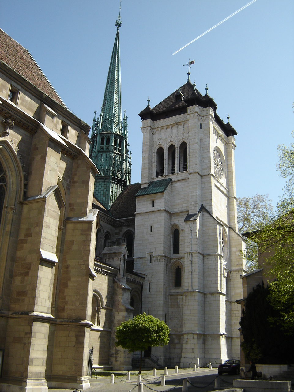 Saint Pierre Cathedral in Geneva